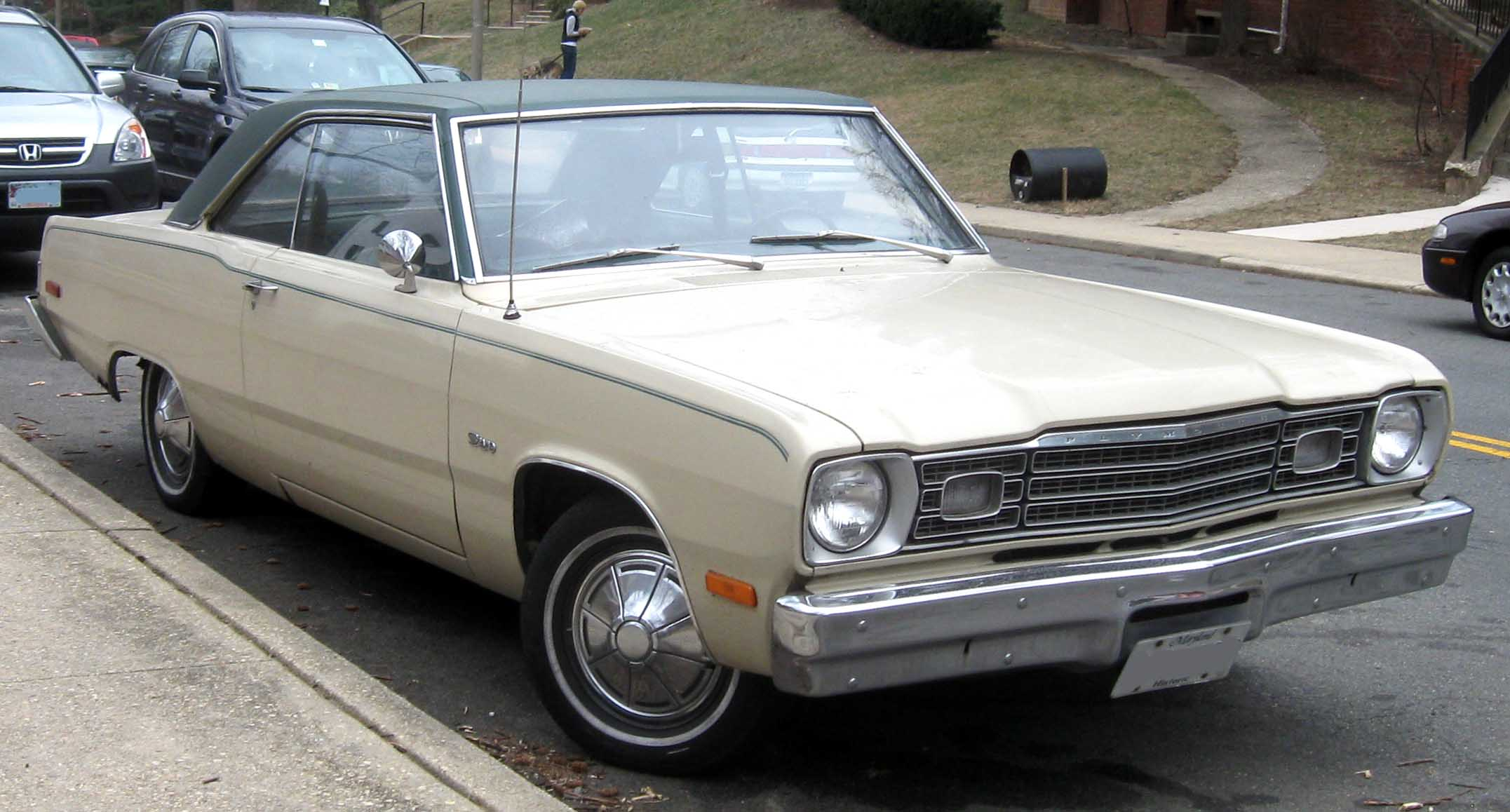 Plymouth Valiant photographed in Alexandria, Virginia, USA.